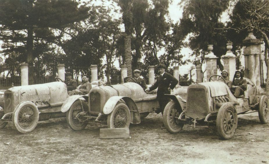 Three Alfa Romeo's participated in Targa Florio on Sicilia on 24 October 1920. From left: Entry #2 is Giuseppe Campari (driver) and Giulio Ramponi (passenger) in Alfa Romeo 40/60 HP (did not finish), in centre: Enzo Ferrari (entry #14) in Alfa Romeo 40/60 HP (2nd place), on right: Giuseppe Baldoni (#17) in Alfa Romeo 20/30 (did not finish).[1]Some think this picture is from the 1920 Targa Florio, but the numbers on the cars dont match. The cars in the picture have #2, #3 and #12. Enzo Ferrari for sure in the middle. Campari may be on the left.